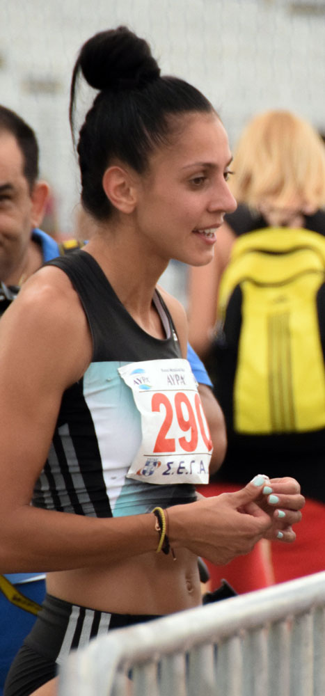 Greek hurdler Elisavet Pesiridou.